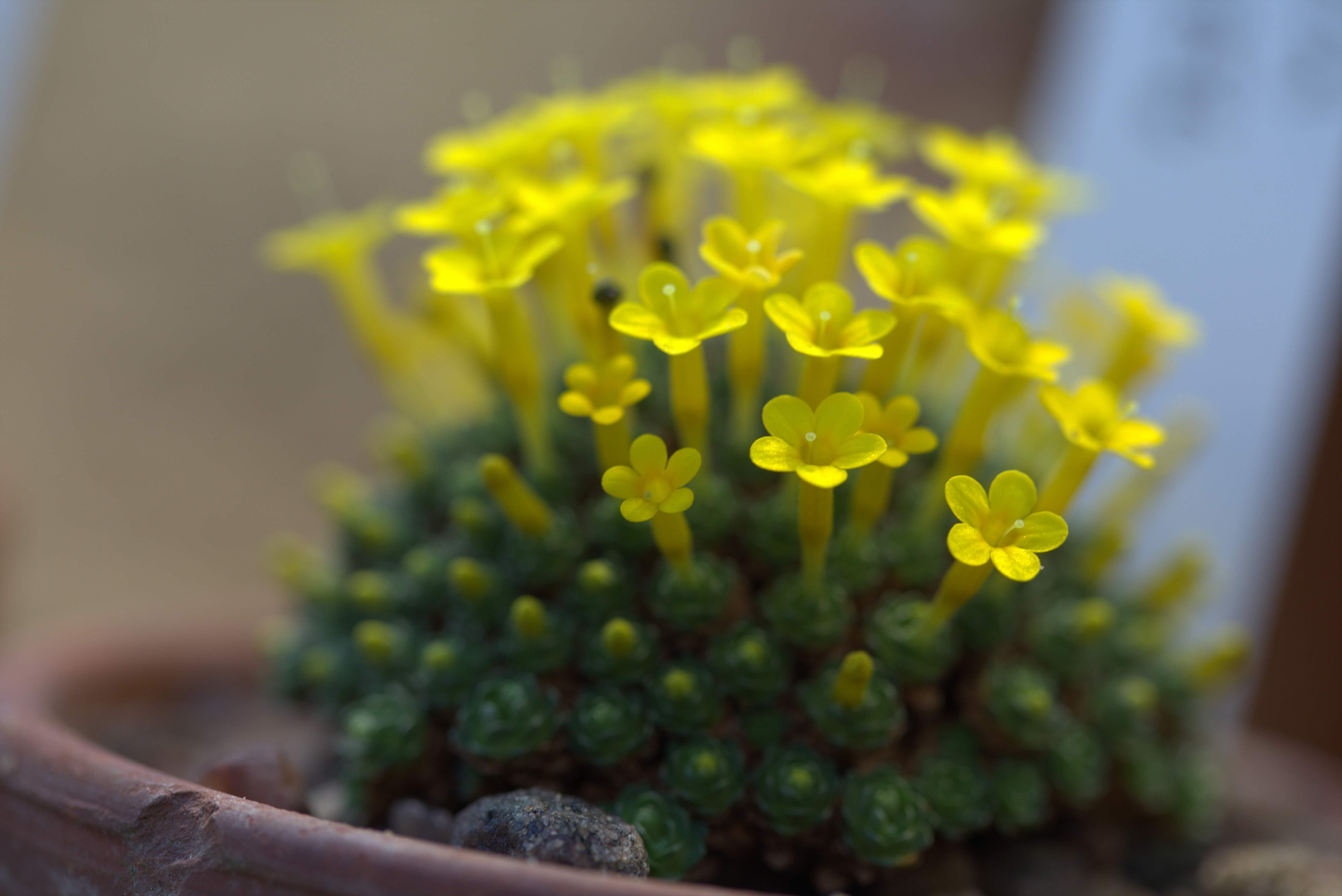 Dionysia zagrica at Gothenburg Botanical Garden in 2015. Plant id: 2003-1856